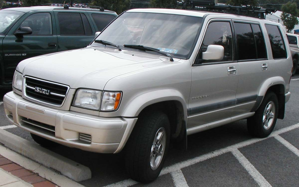 1998-1999 Isuzu Trooper photographed in USA.